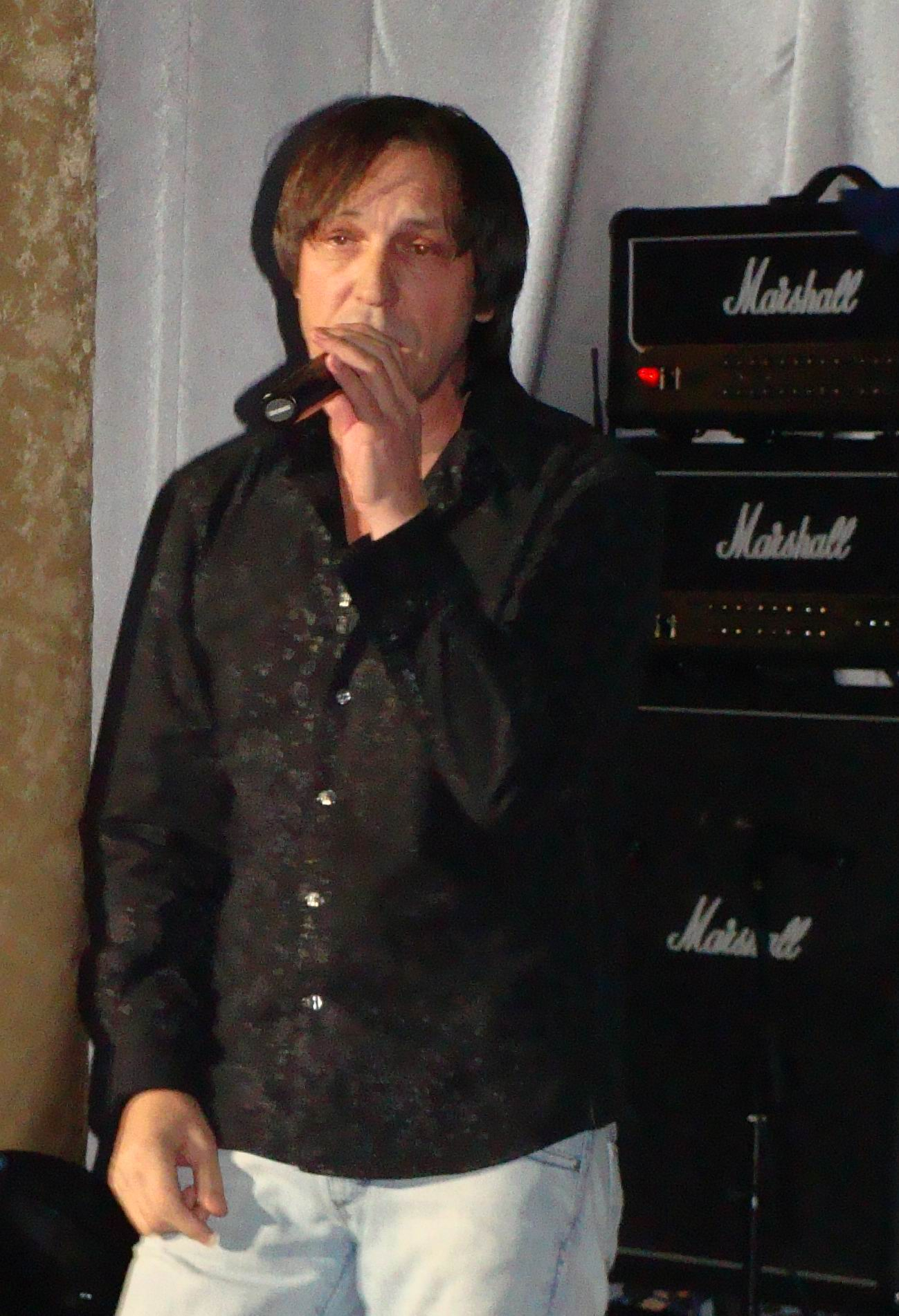 Nikolai Ivanovich Noskov ( born January 12, 1956, Gzhatsk) is a Russian singer and a former vocalist of the hard rock band Gorky Park.